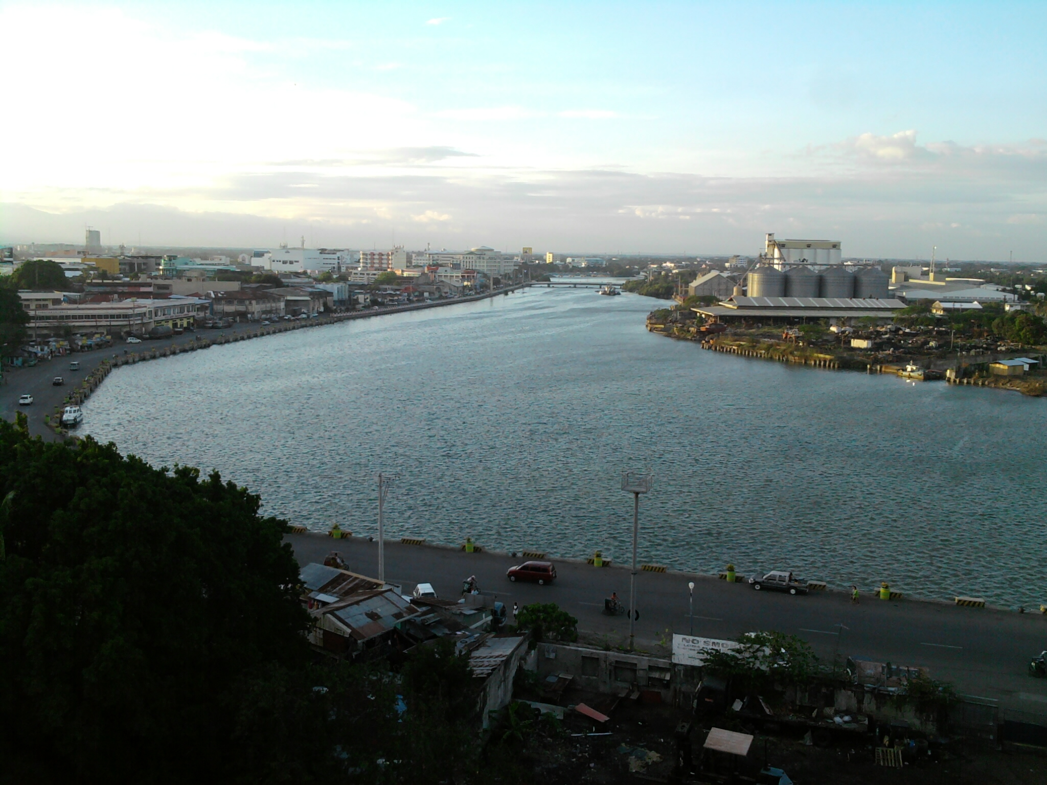 Photo from the Iloilo City Hall of the Iloilo River looking towards the provincial capitol along Muelle Loney